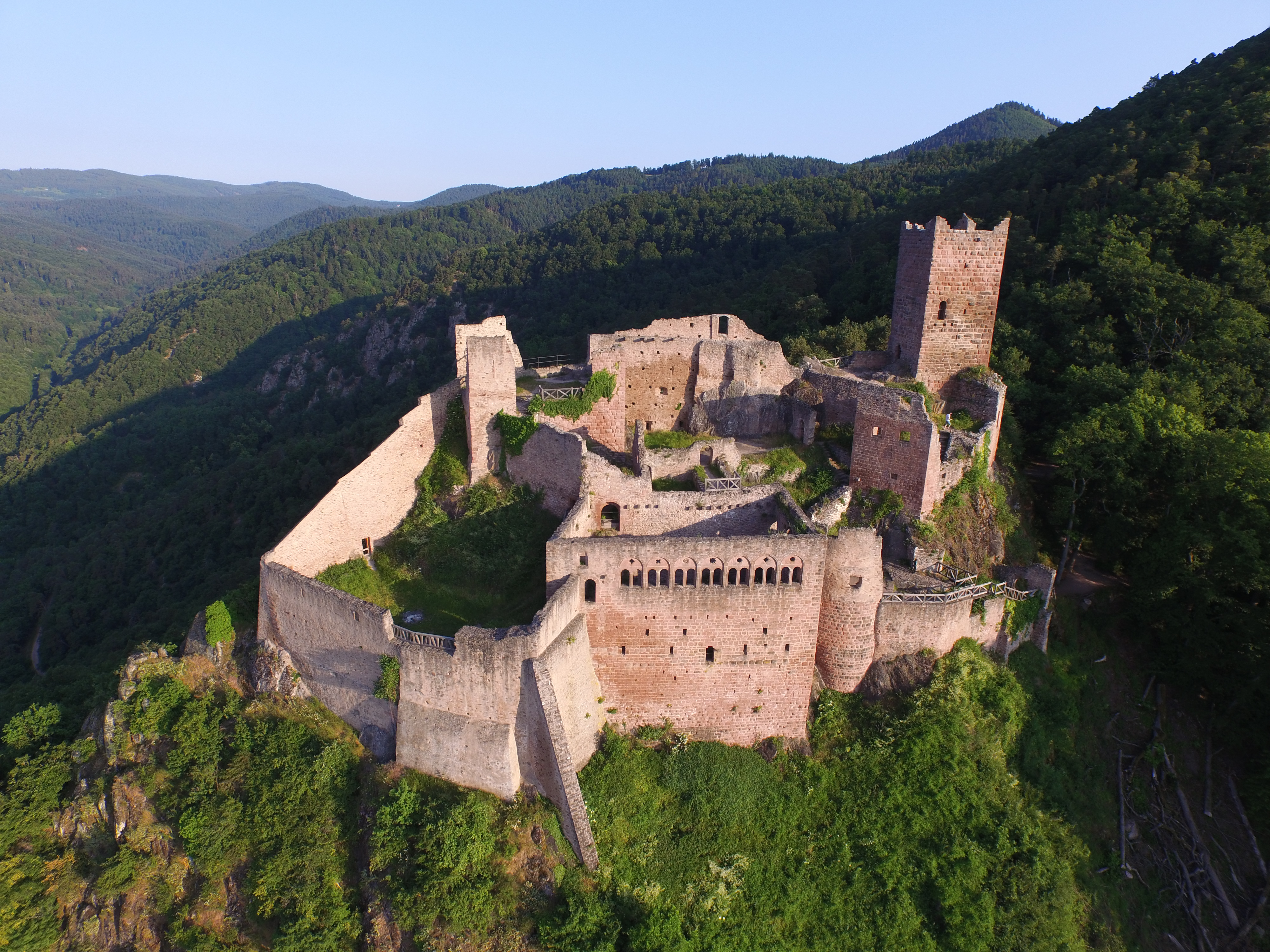 Château Saint-Ulrich, in Ribeauvillé, France.